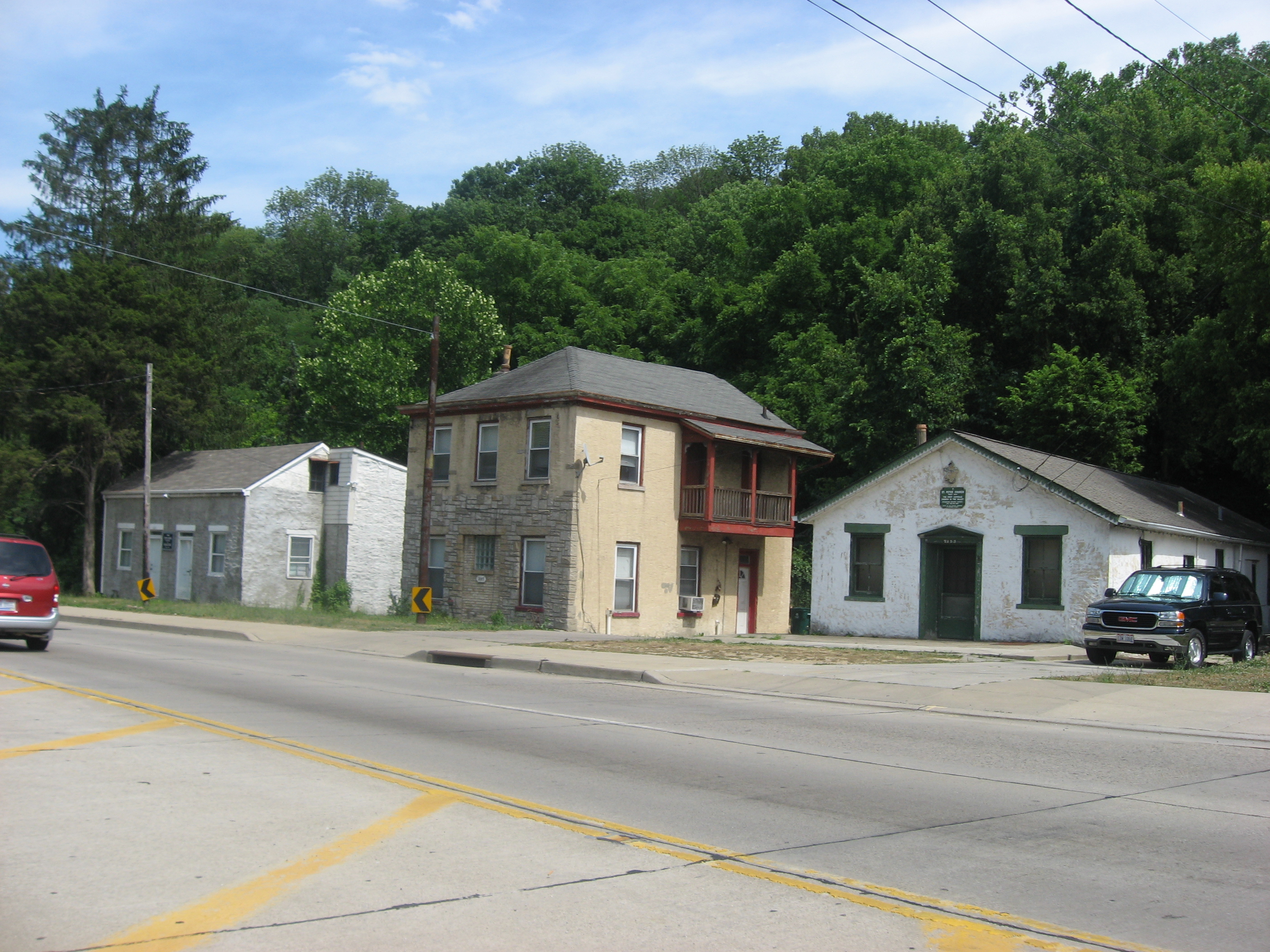 Streetside view of the three buildings in the St. Peter's Lick Run Historic District, located along Queen City Avenue in the South Fairmount neighborhood of Cincinnati, Ohio, United States. From left to right, they are: 2145 Queen City: A stonemason's house, built in 1849 2149 Queen City: A school, built in 1850 2153 Queen City: Old St. Peter's Church, built in 1840, the second-oldest German Catholic church in the Archdiocese of Cincinnati The historic district is listed on the National Register of Historic Places.